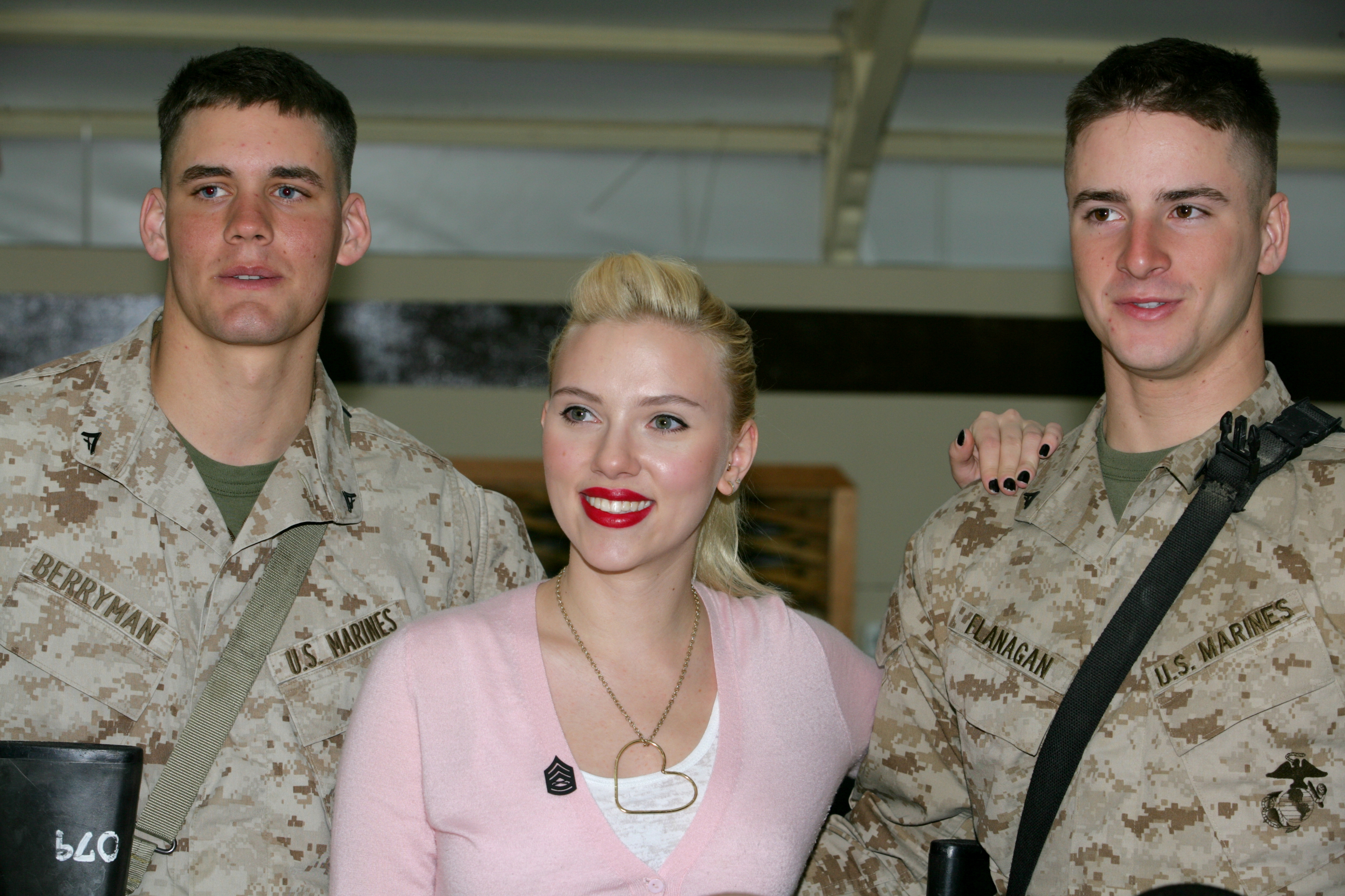 Scarlett Johansson with some soldiers.